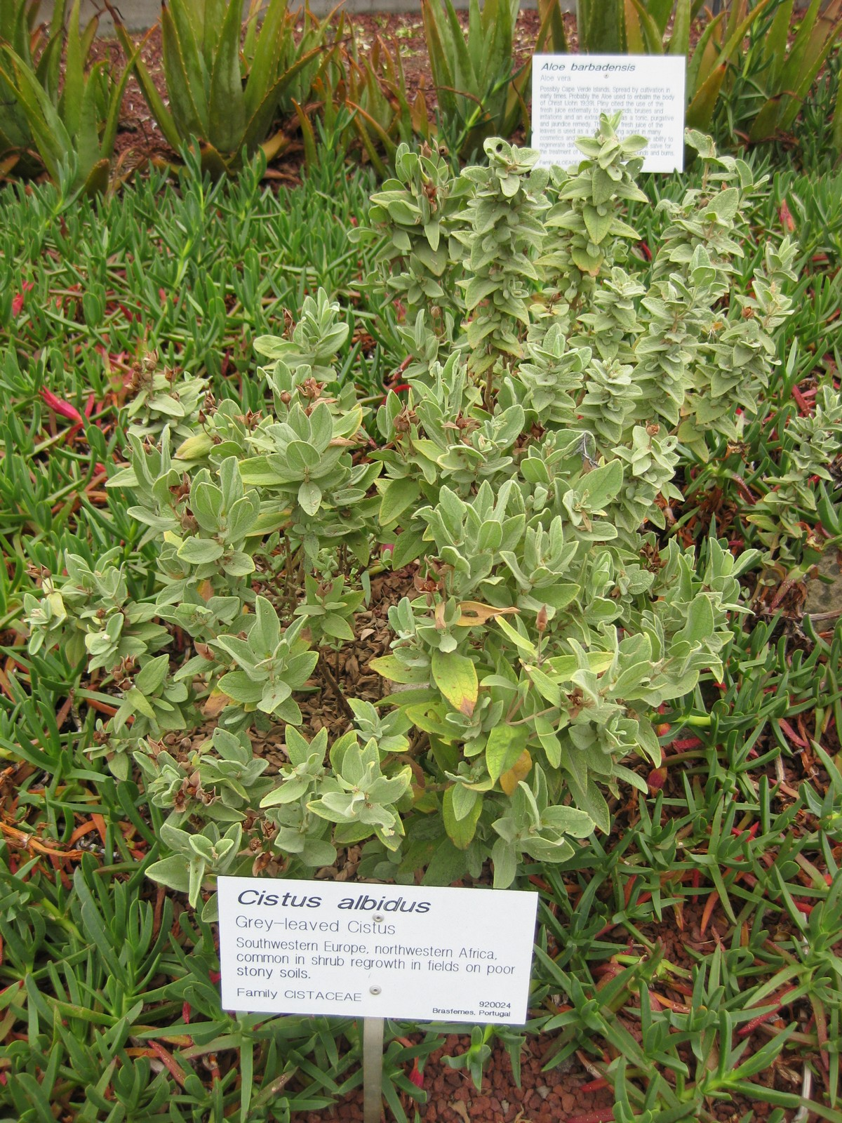 Photographed at the Royal Botanic Gardens Sydney (Australia) in January